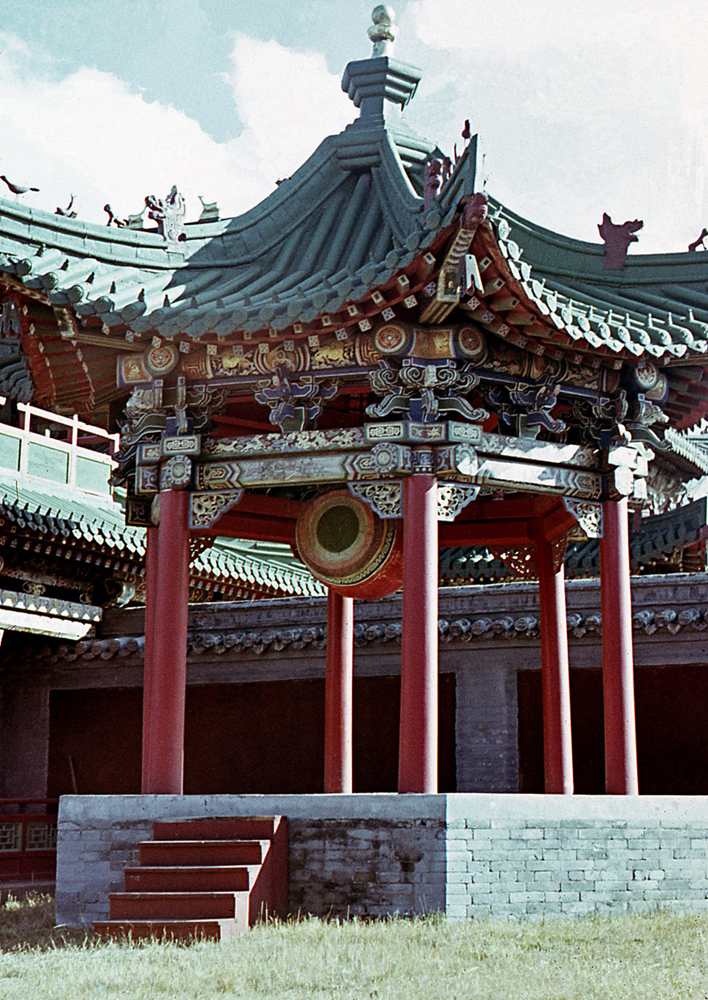 Winter Palace of the Bogd Khan, Ulan Bator, Mongolia (1972).